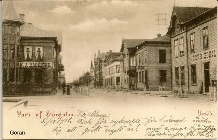 Postcard picturing Storgatan i Umeå, dated December 31h, 1901.